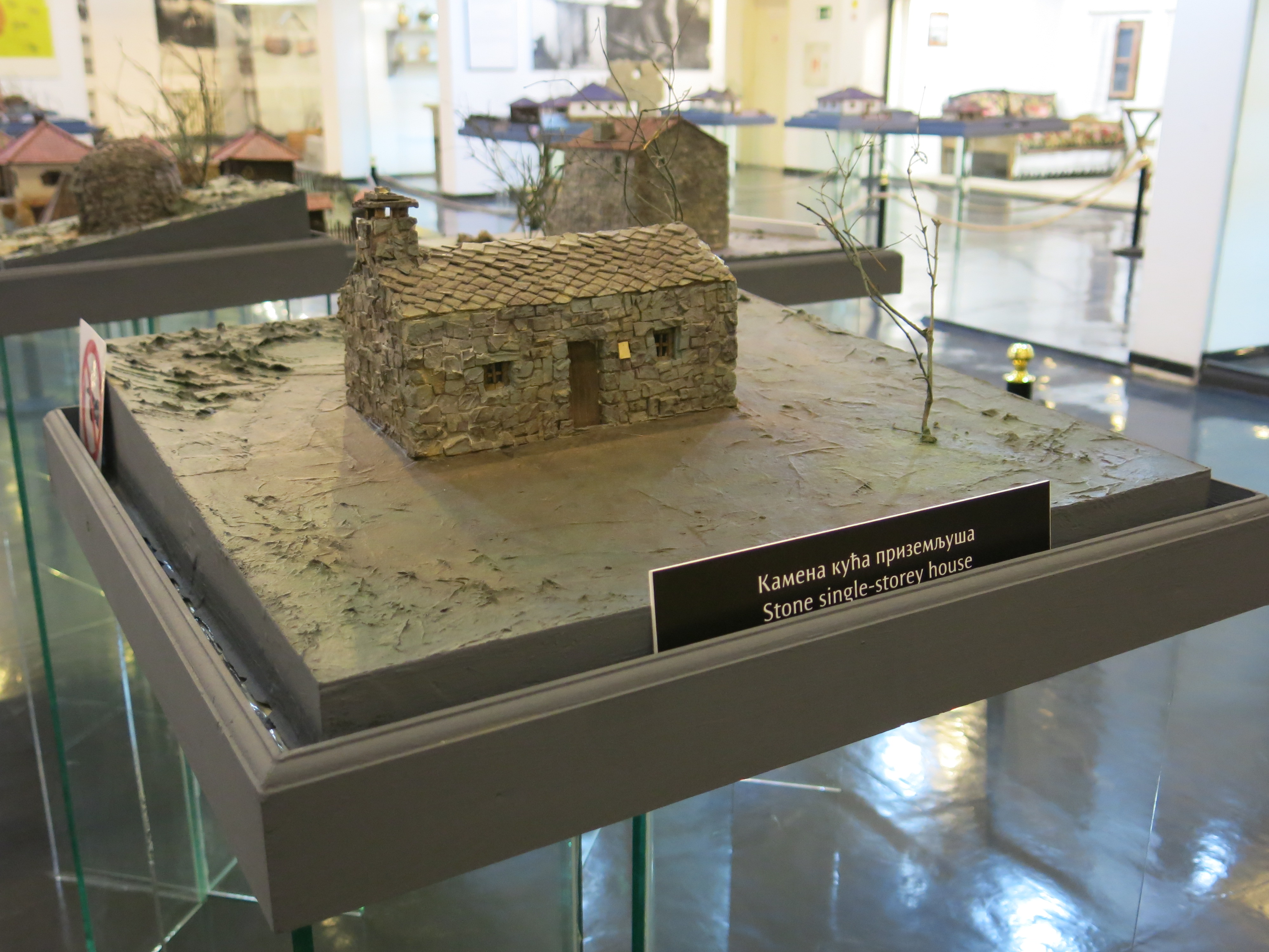 Ethnografic Museum in Belgrade, Serbia